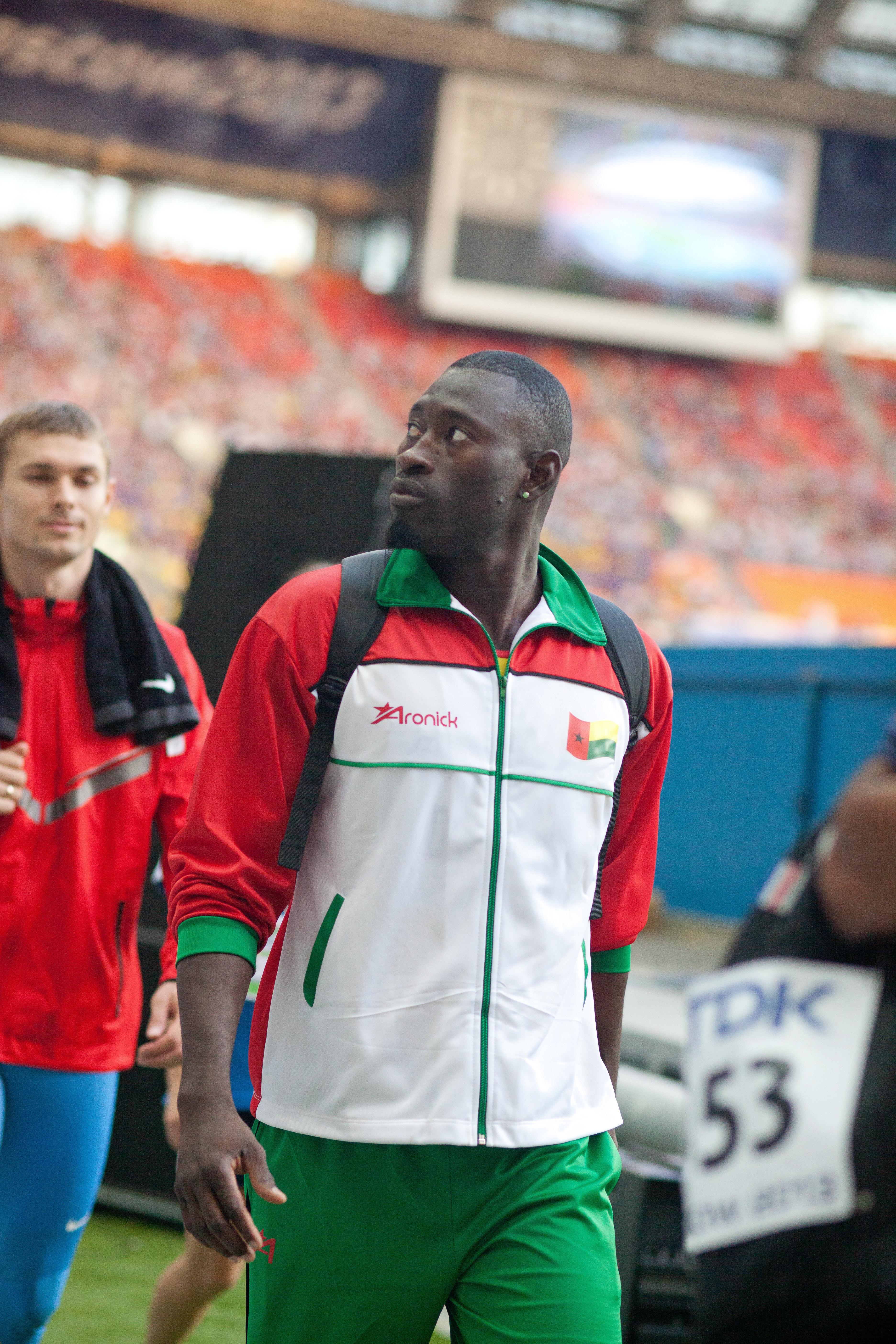 Holder da Silva during 2013 World Championships in Athletics in Moscow.